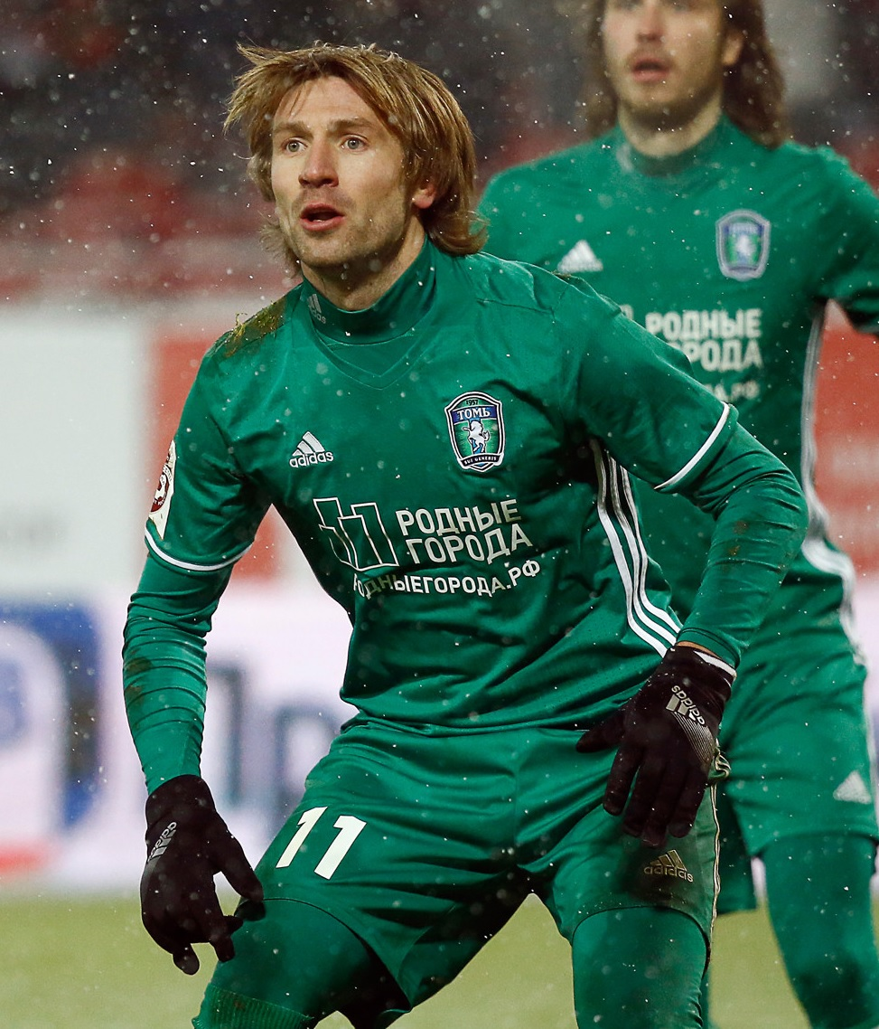 Oleksandr Kasyan with FC Tom Tomsk in a game against FC Lokomotiv Moscow.